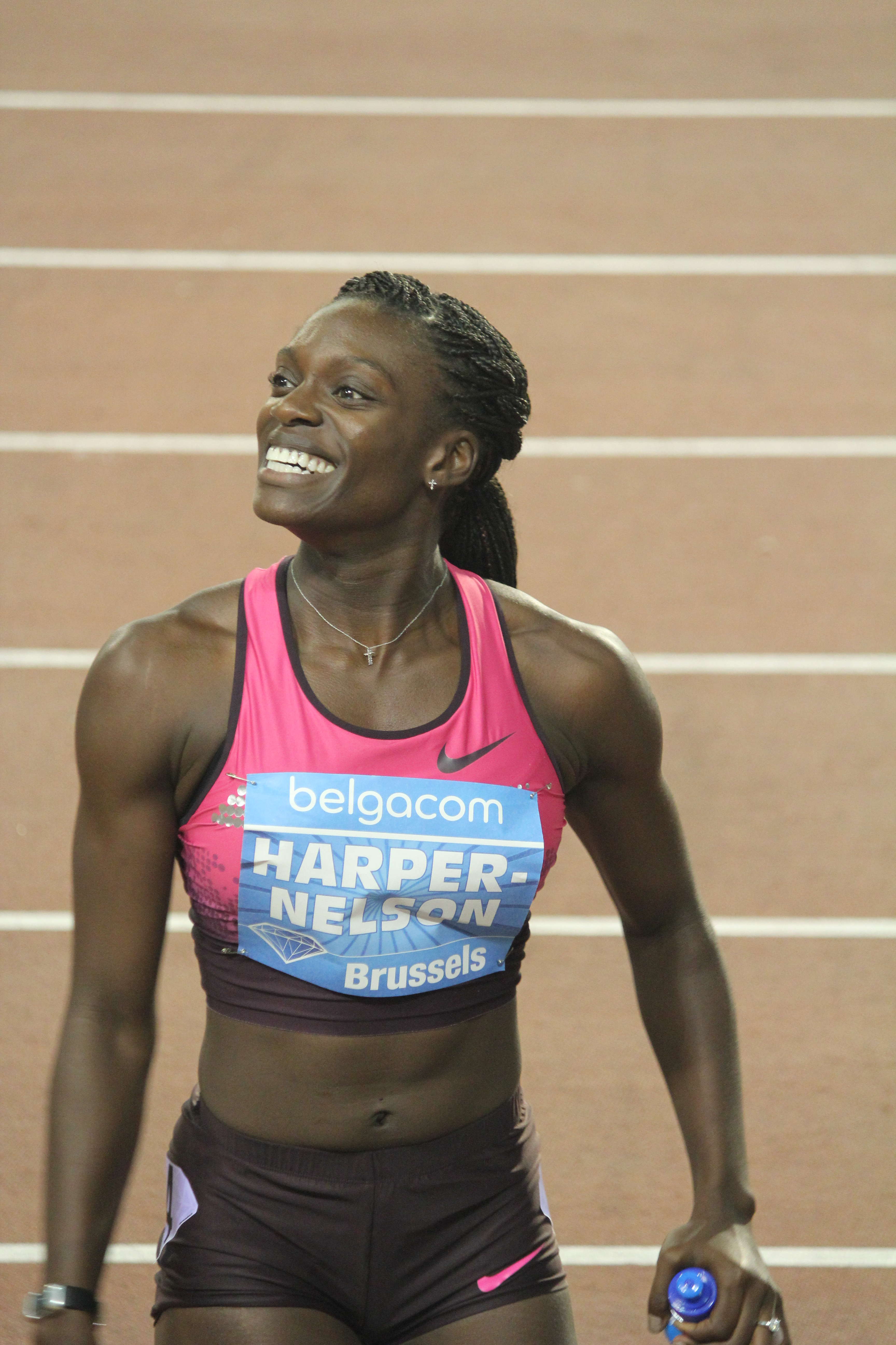 Memorial Van Damme, Dawn Harper-Nelson (USA), 100m hurdles, Olympic champion 2008 Dawn Harper-Nelson (born May 13, 1984) from East St. Louis, Illinois is an American track and field athlete who specializes in the 100-meter hurdles. She was the gold medalist in the event at the 2008 Beijing Olympic Games and the silver medalist in the 2012 London Olympic Games. Dawn Harper is the first American 100-meter hurdler to ever win gold at an Olympics and medal in the following Olympics. She is trained by Bob Kersee, husband of Jackie Joyner-Kersee, six time Olympic medalist also from her hometown of East St. Louis, Illinois. (source